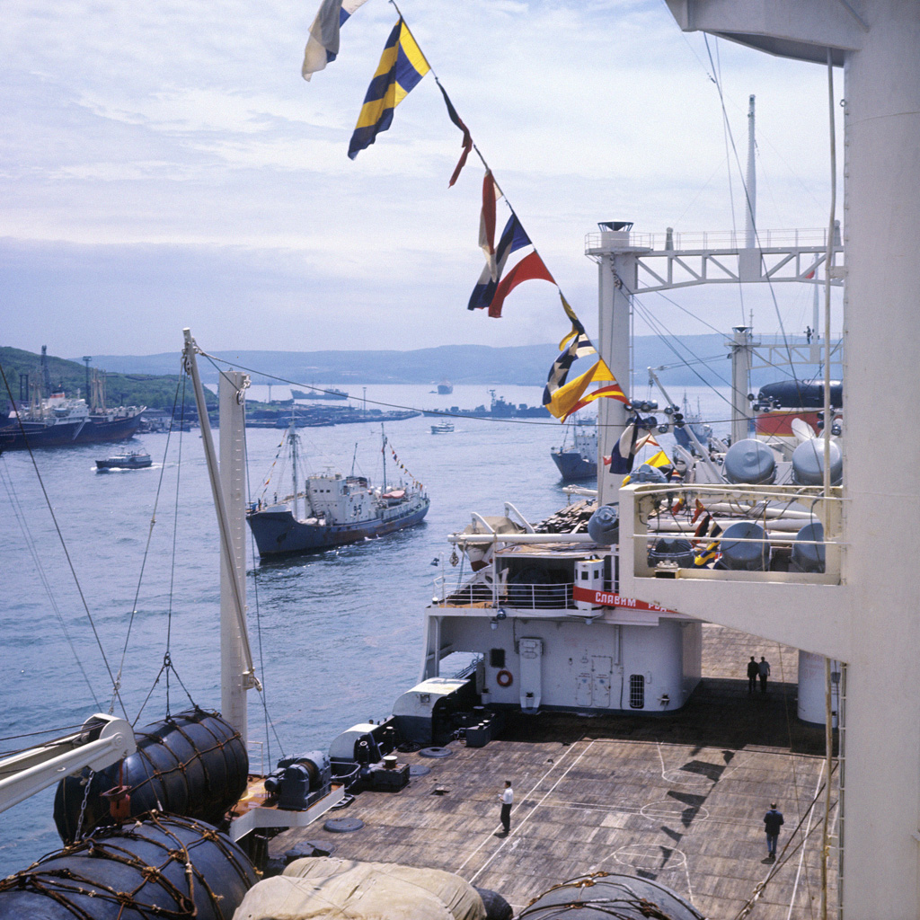 “Sovetskaya Rossiya whaling flotilla”. Ships of the Sovetskaya Rossiya whaling flotilla in Golden Horn Bay.